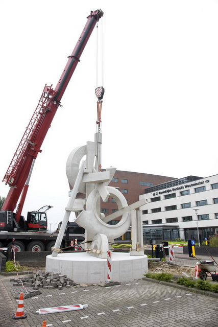 Sculpture "Springtij" (Spring tide) by Ruud Kuijer is being placed at the head-office of Royal Boskalis in Papendrecht in 2008